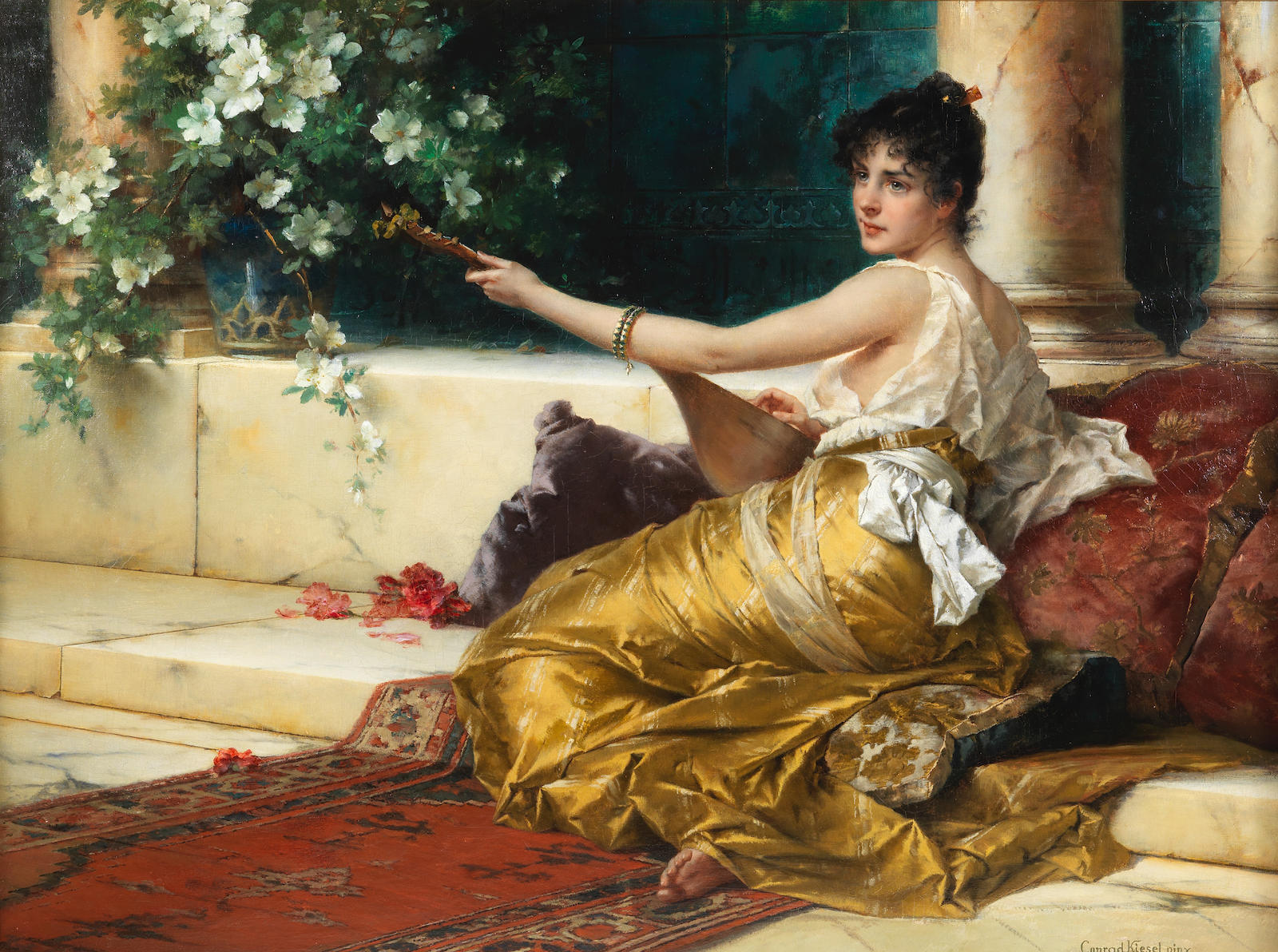 Conrad Kiesel - Mandolinenspielerin / The Mandolin Player, signed 'Conrad Kiesel. pinx' (lower right), oil on canvas 42 x 53 in. (106.5 x 134.5 cm